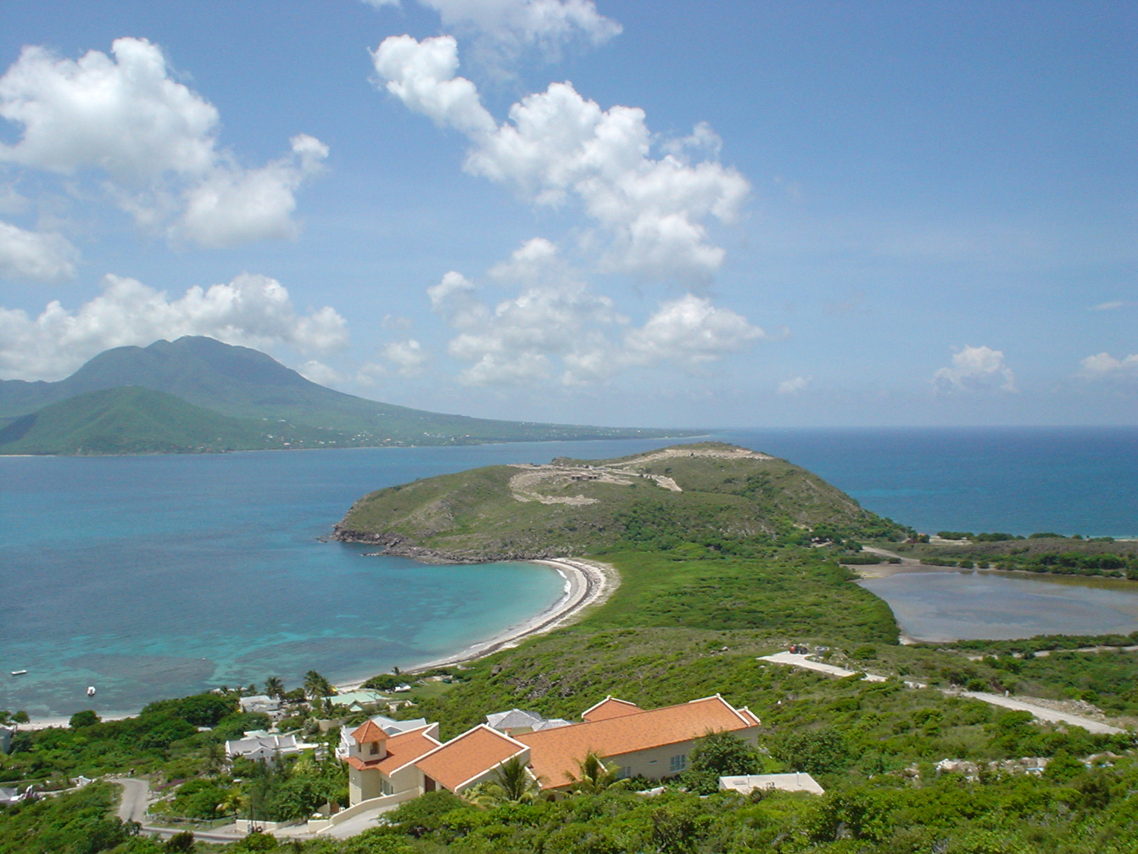 This file was first taken by (and then released to wikipedia by) kayokayo.